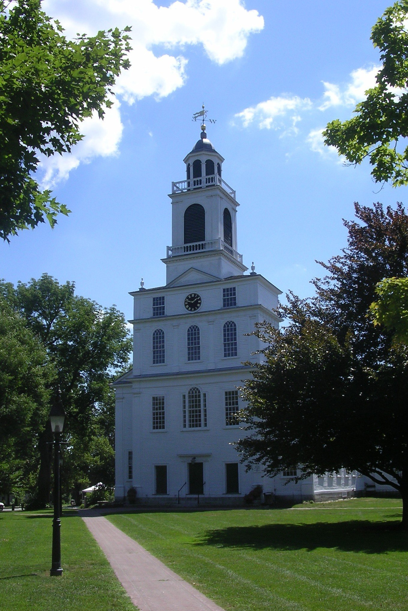 First Parish in Bedford Massachusetts